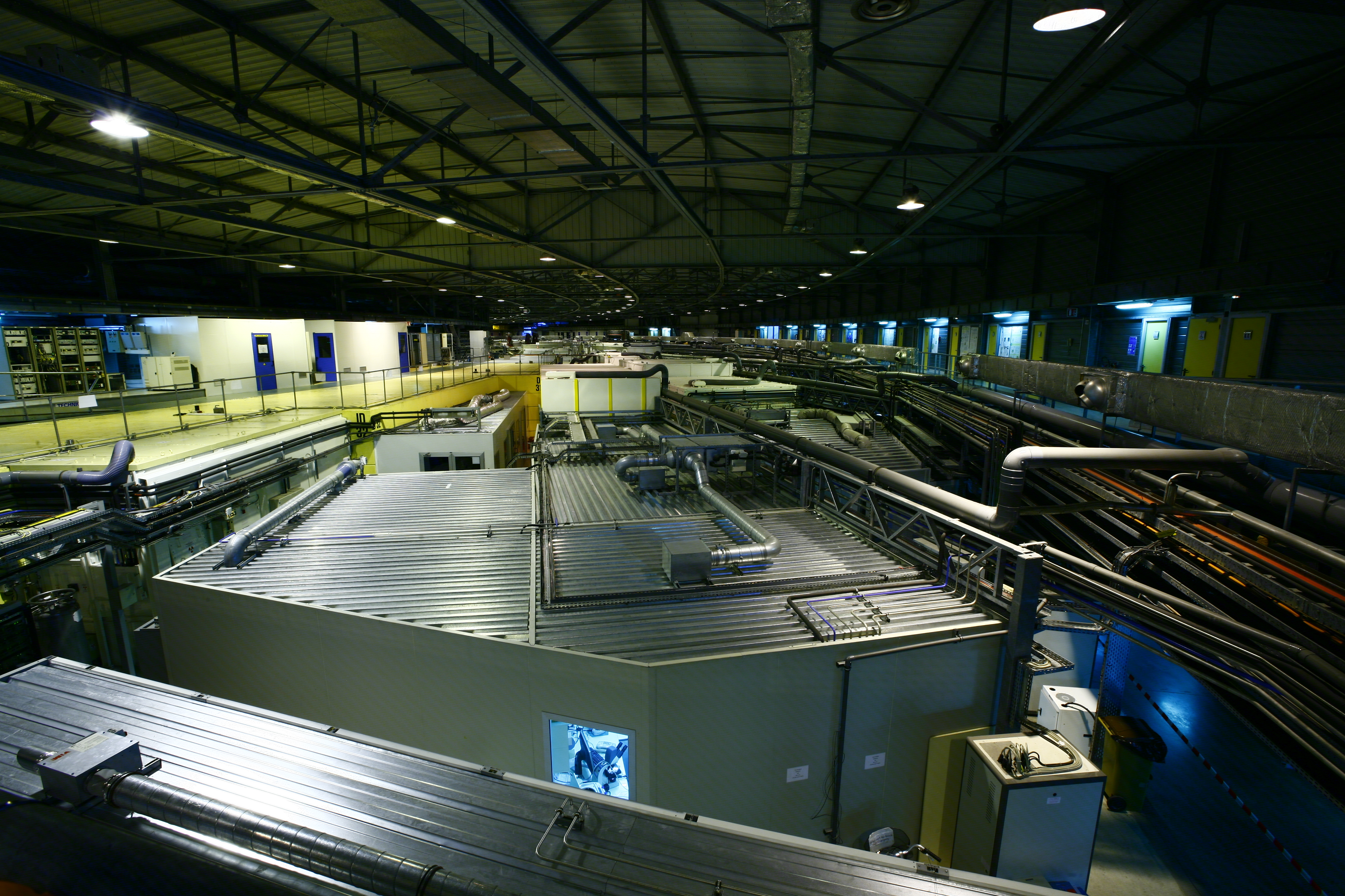 European Synchrotron Radiation Facility in Grenoble